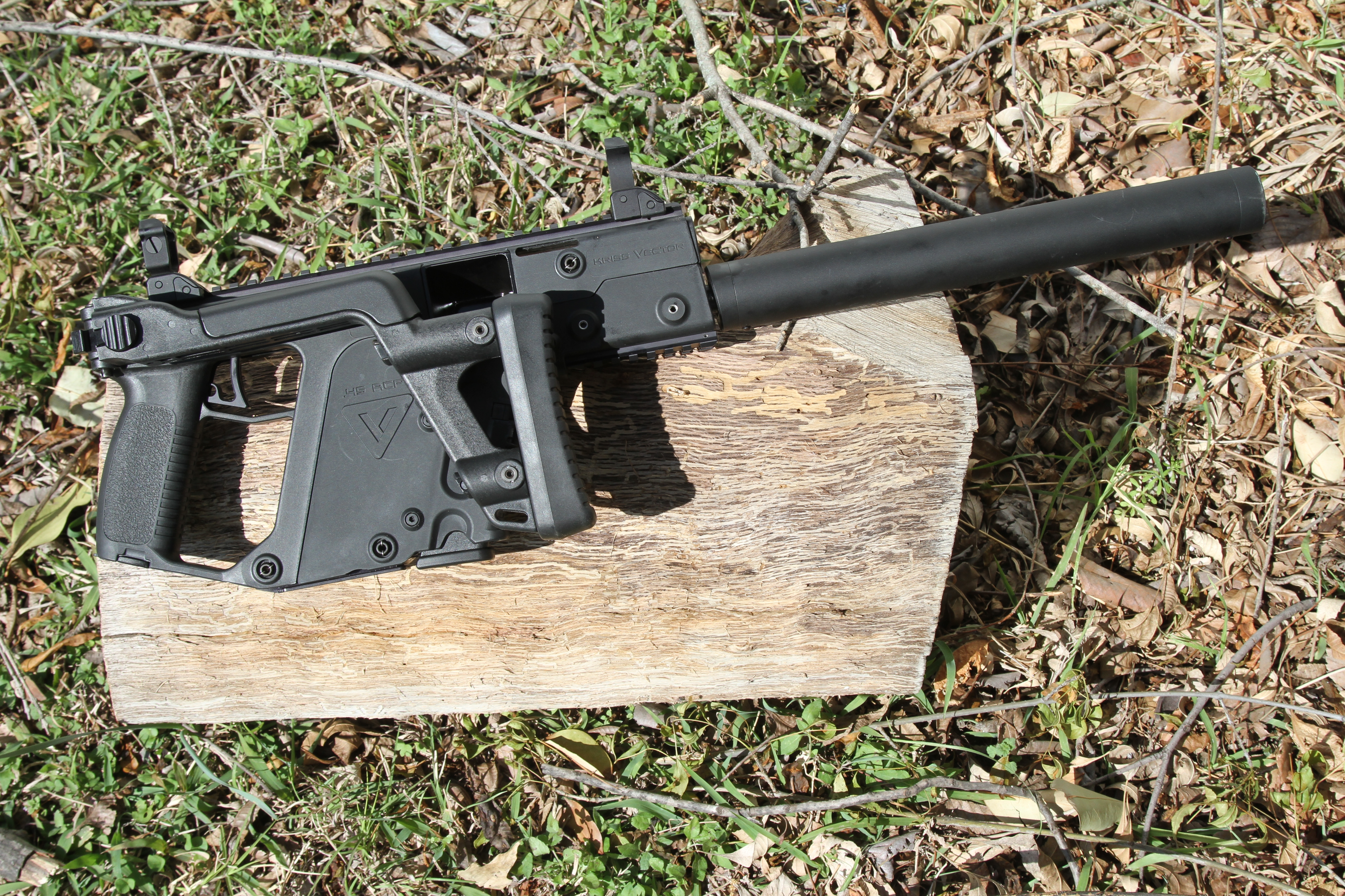 Right view of Kriss Vector Carbine stock folded